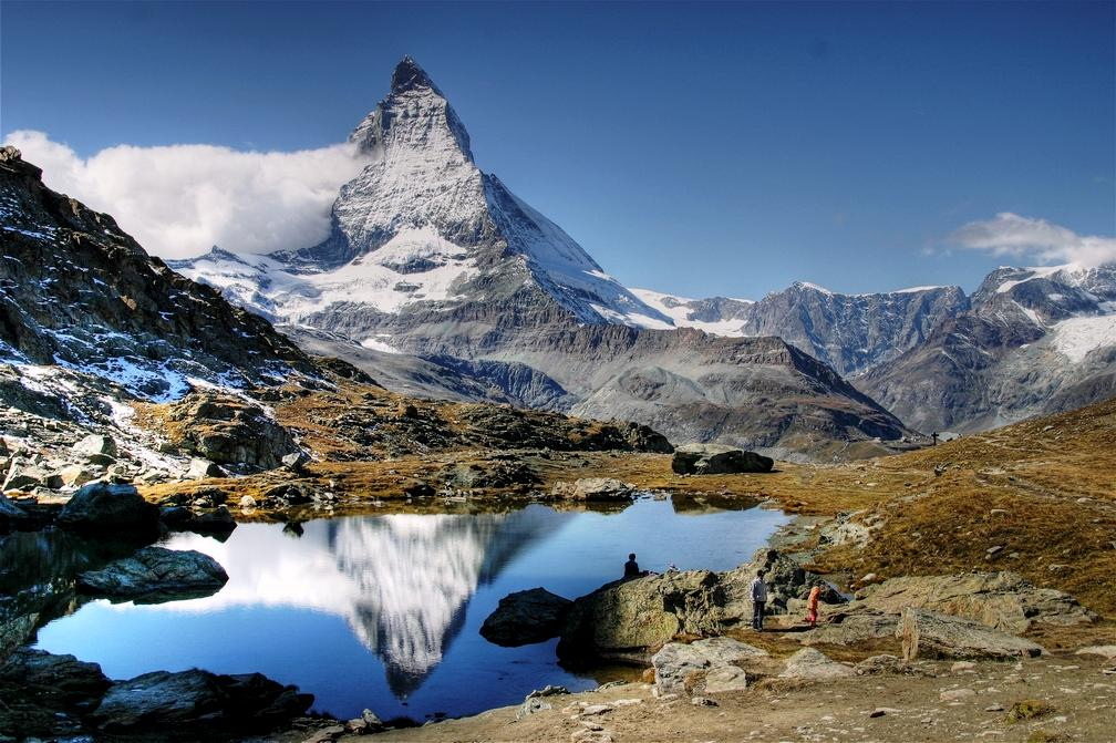 Matterhorn (4478 metres) from near Gornergrat, above Zermatt.